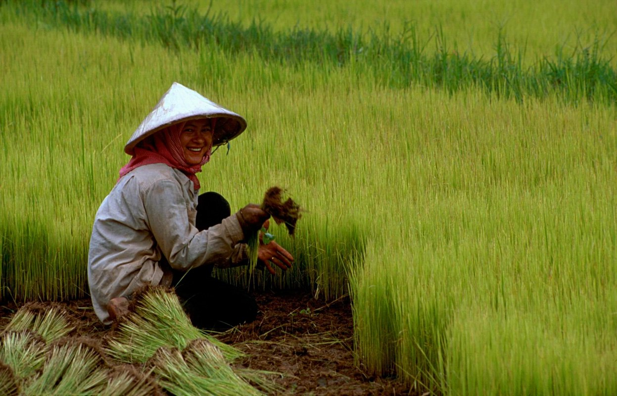 Cambodia, Kratie: A worker is removing the rice seedlings.